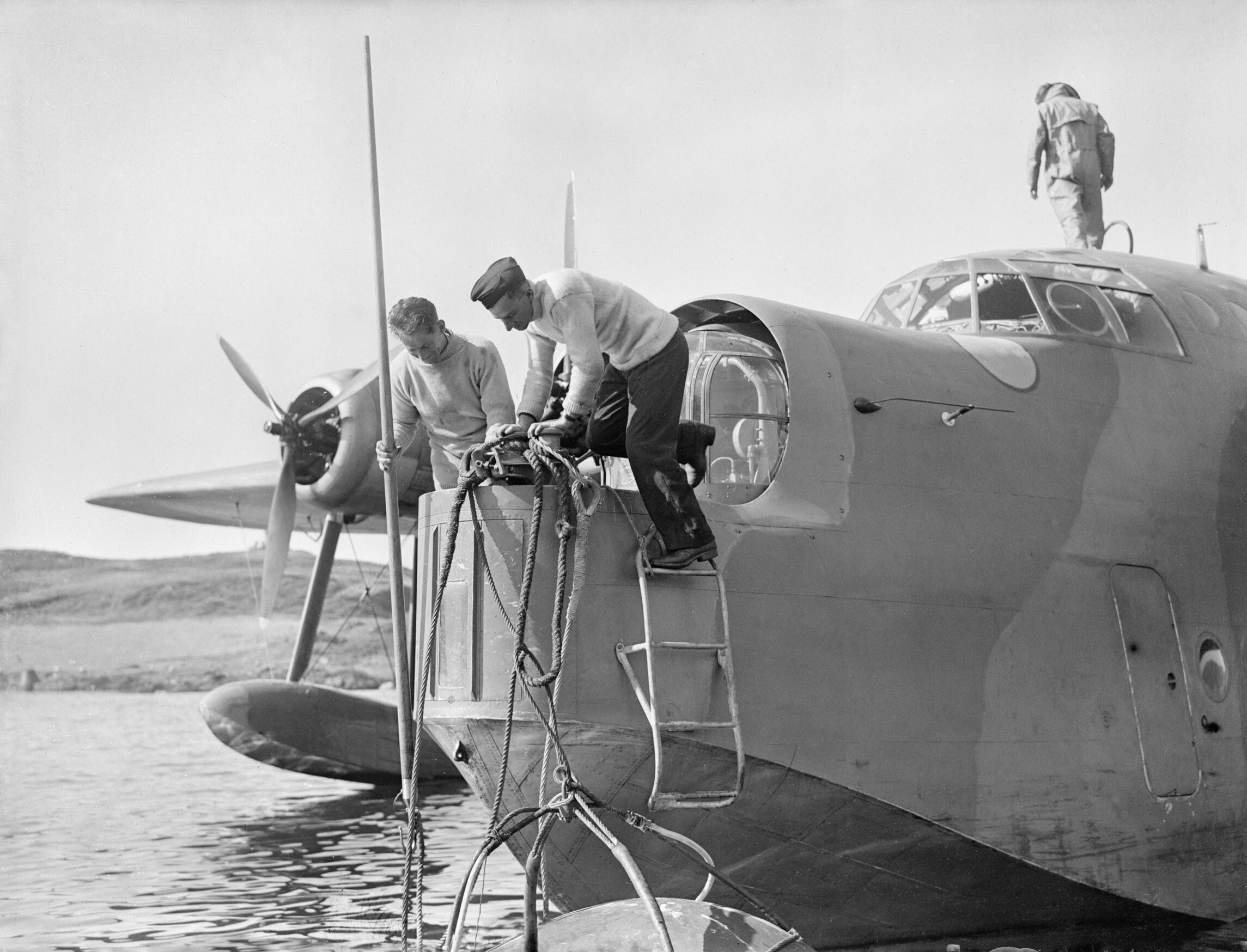 Royal Air Force- 1939-1945- Coastal Command Close-up of the nose of a Sunderland of No 210 Squadron at Oban, August 1940. A mooring compartment was situated in the nose of the Sunderland, containing anchor, winch, boat-hook and ladder. The front turret was designed to slide back, enabling the crew to secure the aircraft to a buoy, as demonstrated here. The circle painted on the fuselage just below the cockpit is a gas-detection patch.